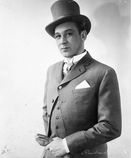 Photograph of the Finnish actor Börje Lampenius (1921–2016), in the role of Ivan Alexandrovich Khlestakov from Nikolai Gogol’s The Government Inspector.